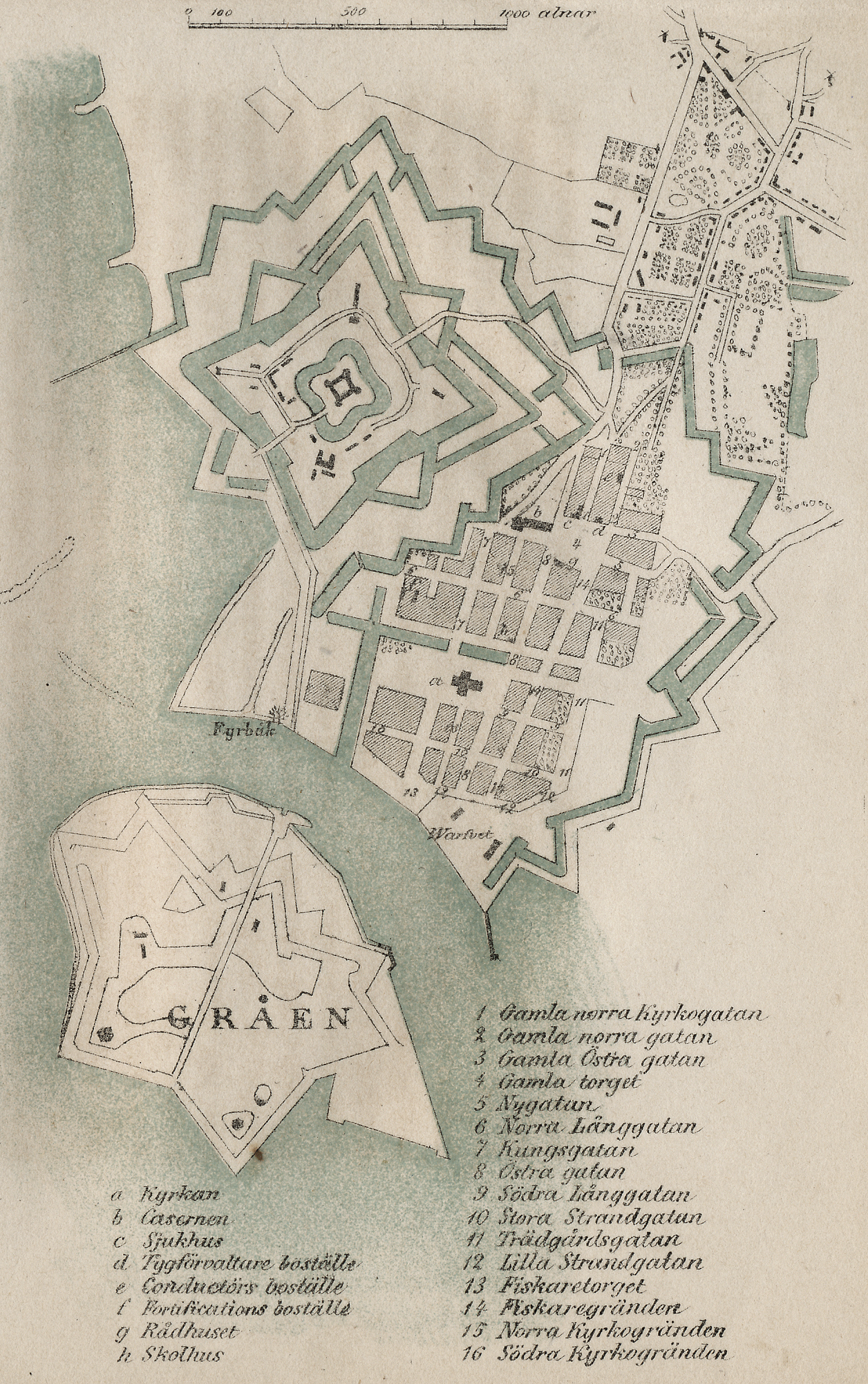 Map from about 1850 of the town of Landskrona in Sweden.